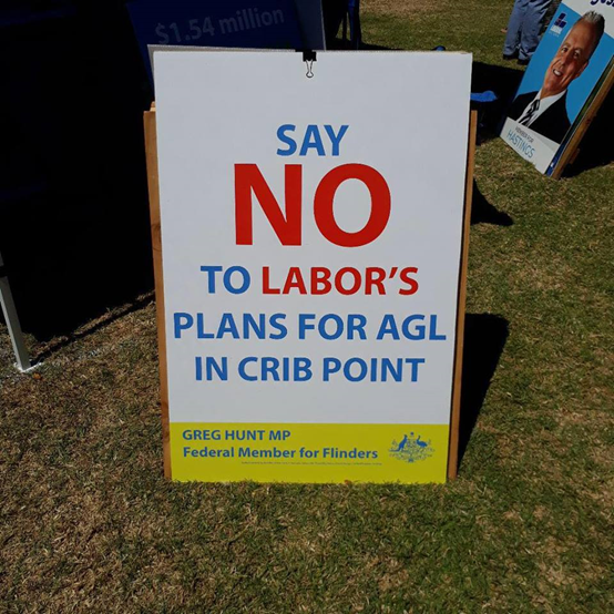 The Hon. Greg Hunt MP makes a stand against the AGL proposition for Crib Point during the Federal Election 2019 campaign. Photo taken at the Westernport Festival 2019.